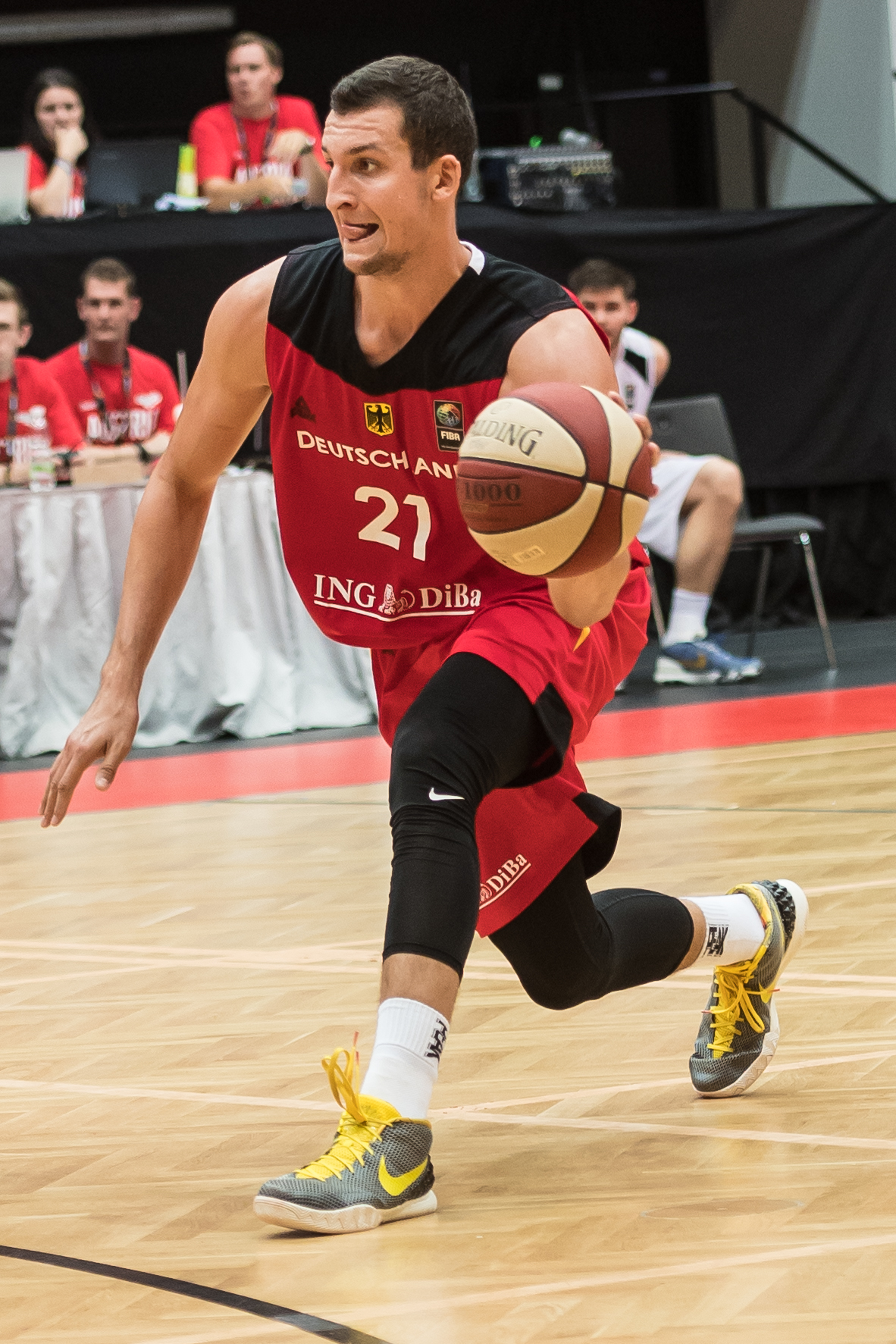 EuroBasket 2017 Qualification Austria vs Germany, Schwechat, Lower Austria, 2016-09-03.